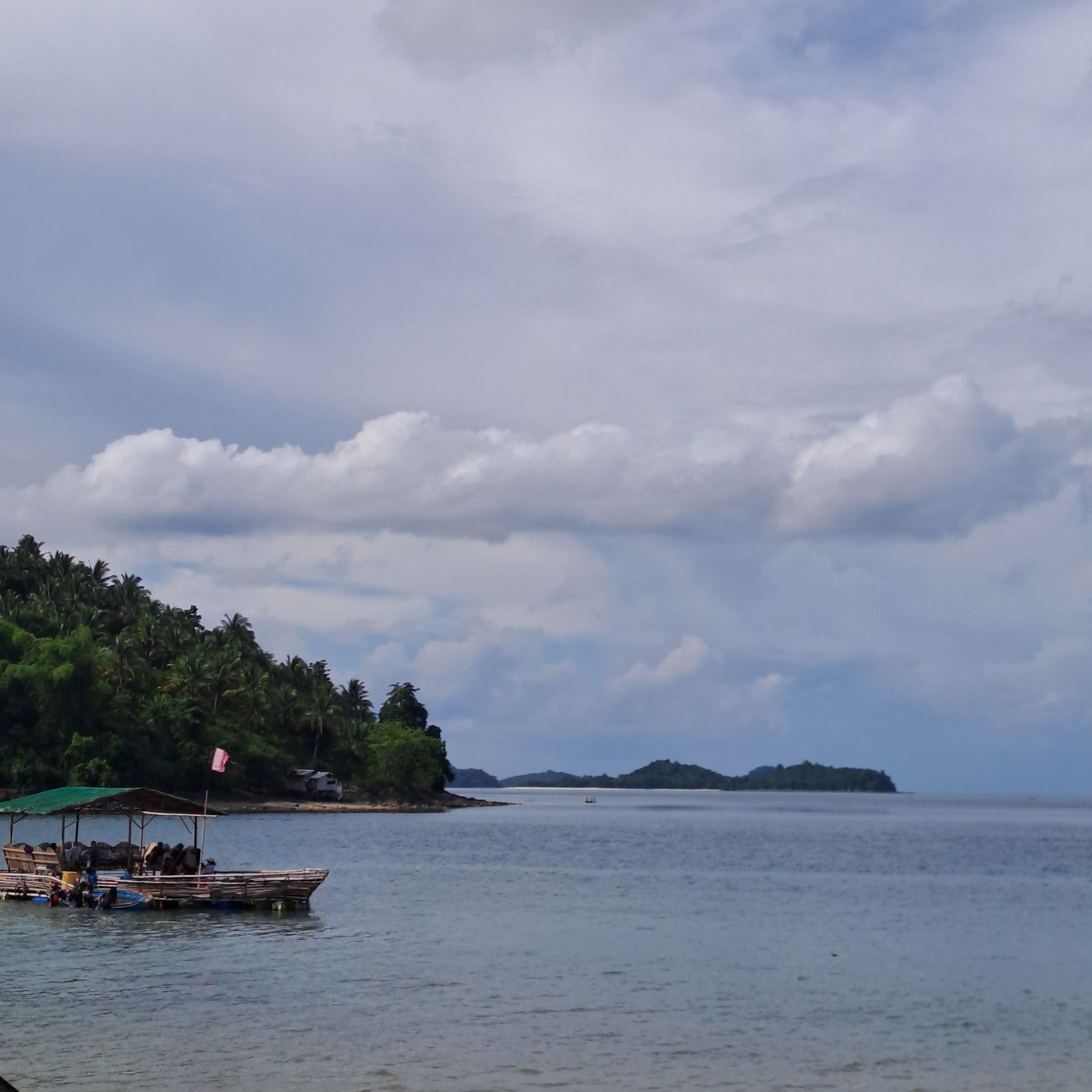 (From top, left to right): Paranomic view of Zamboanga City, Southway Square Mall, Downtown Of Zamboanga, Mindpro Citimall, WMSU Building, ADZU Building, UZ Building, Immaculate Conception Cathedral and Taluksangay Mosque.